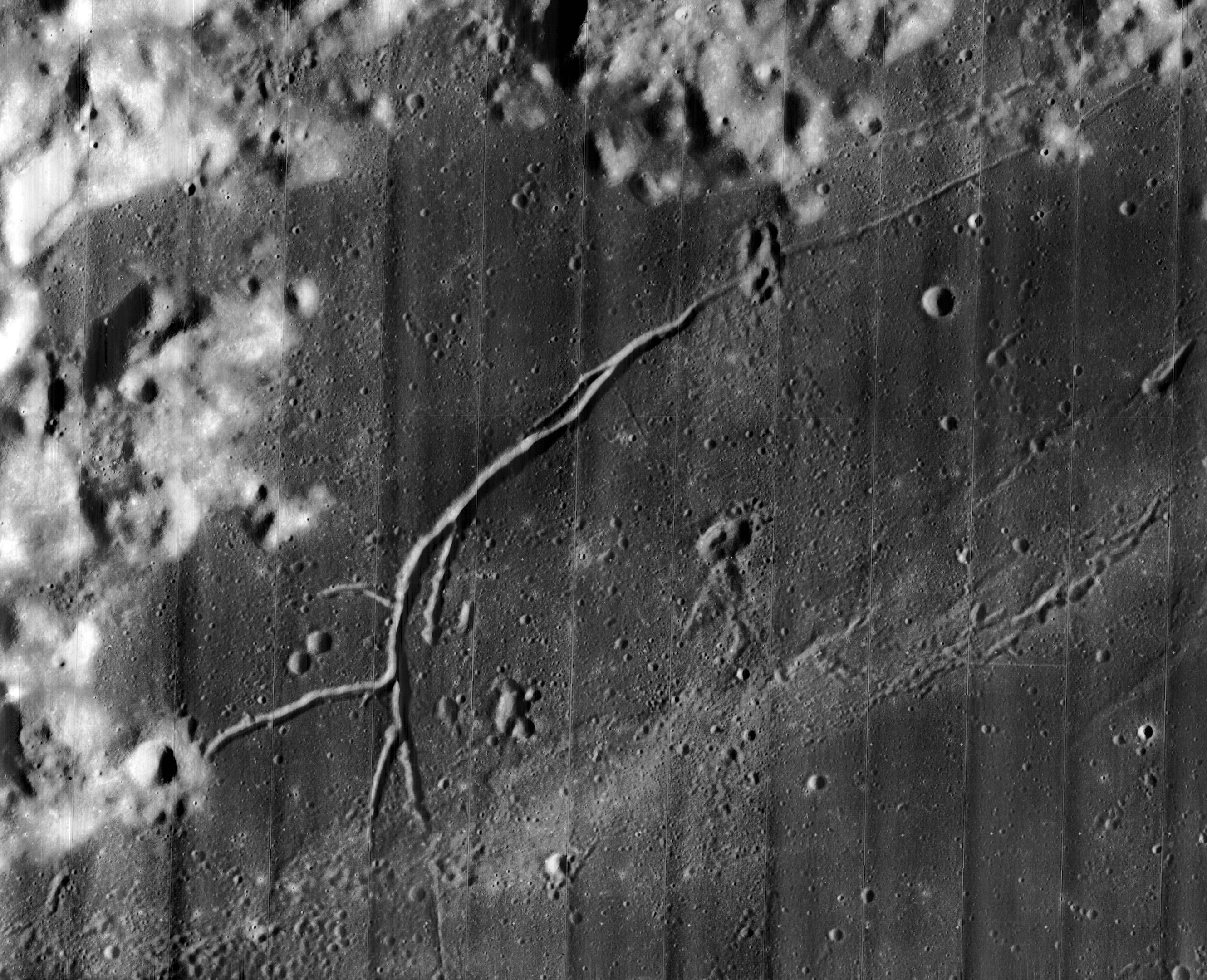 Rima Calippus, along the northwest margin of Mare Serenitatis, and southeast of the crater Calippus.